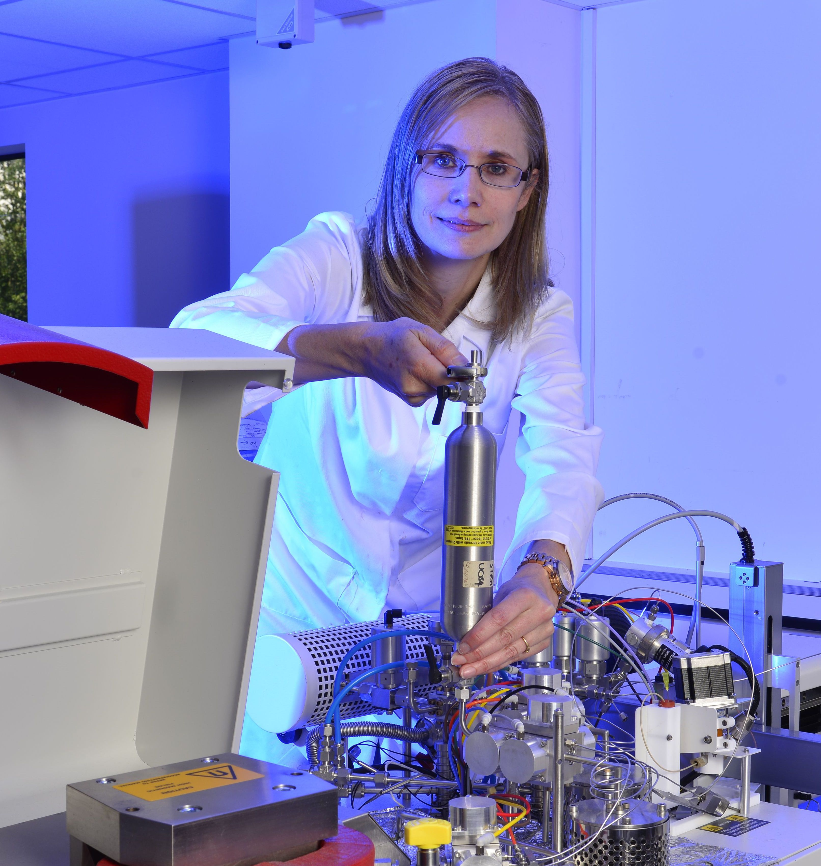 Mel Leng in lab